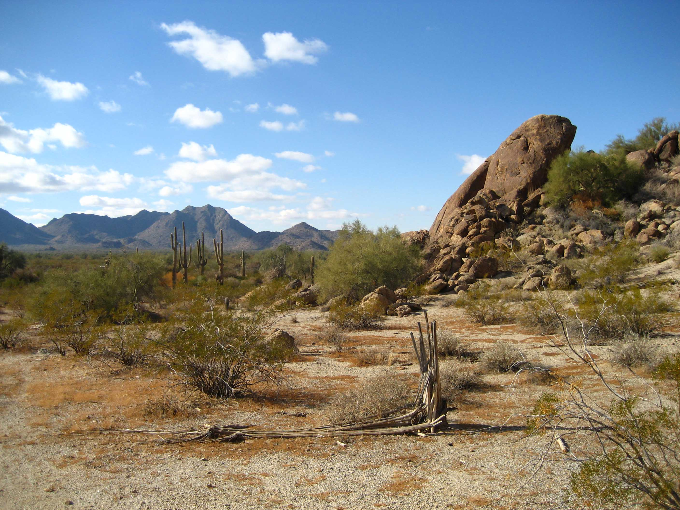 View of the Sonoran Desert approx. 30 miles west of Maricopa, Arizona.